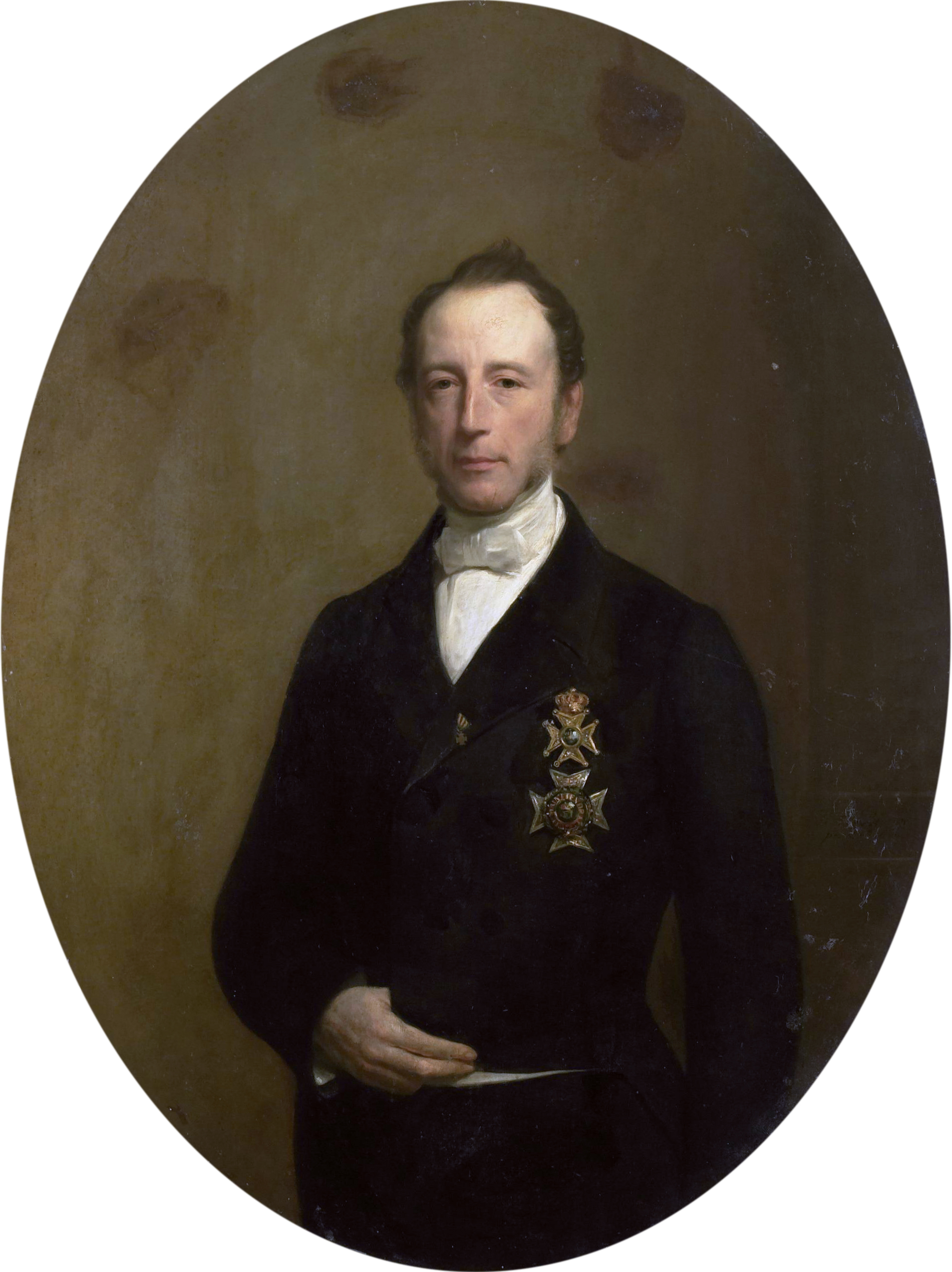 Portrait of Albertus Jacob Duymaer van Twist, Governor-General of the Dutch East Indies from 1851 to 1855. Part of the Governors-general series.